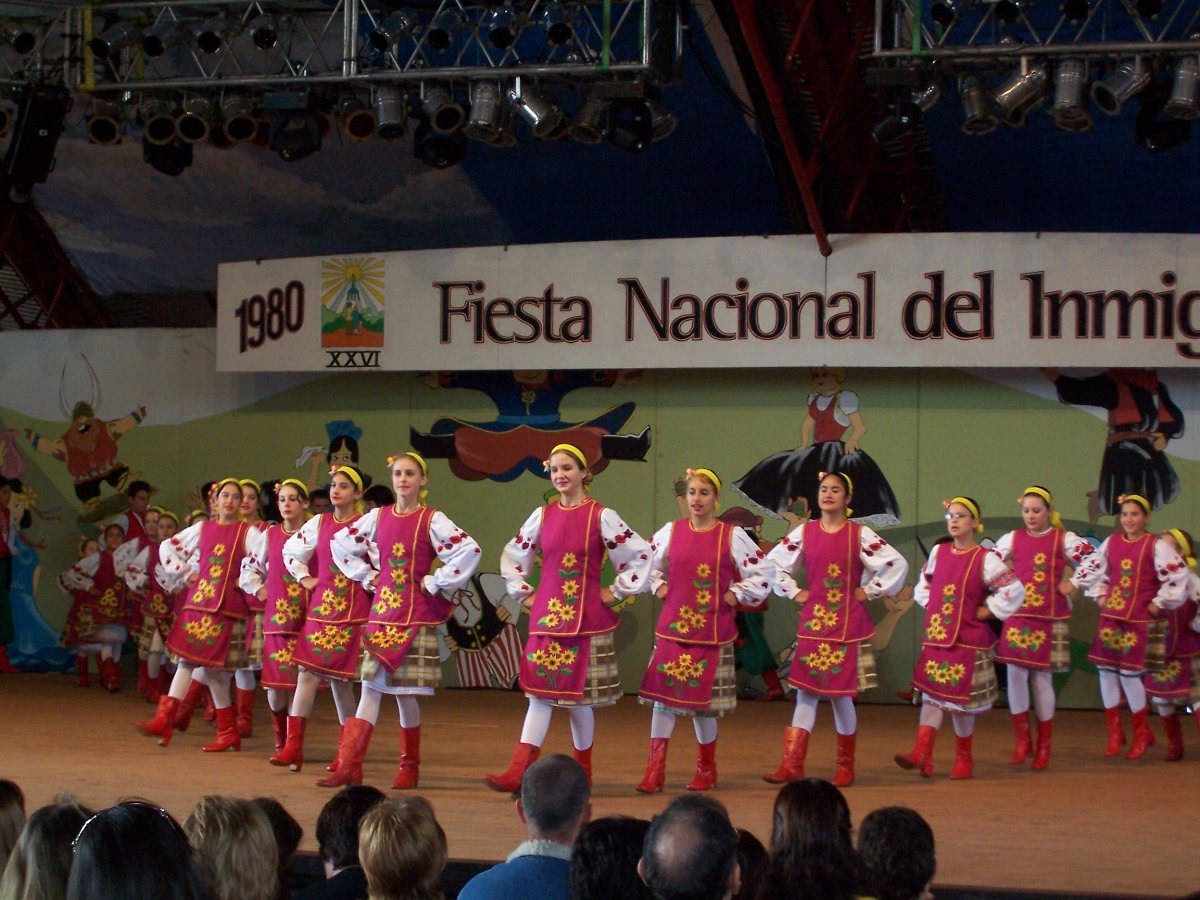 The Ukrainian "Barbinok" ballet, in the greater scene of XXVI Immigrant's National Festival, in Oberá, Misiones, Argentina.